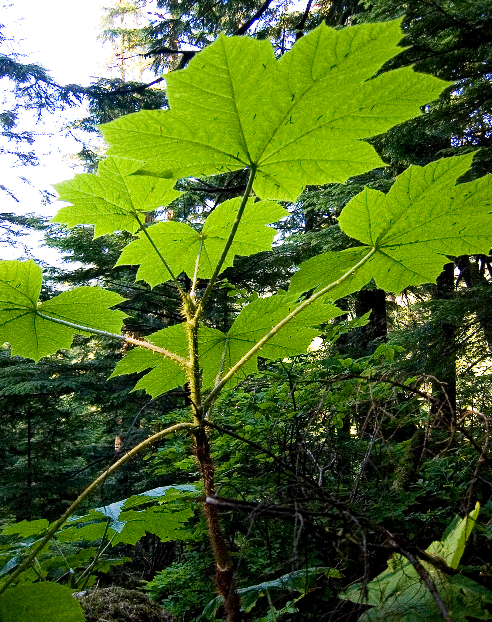 A devil's club somewhere in the Pacific Northwest in US.